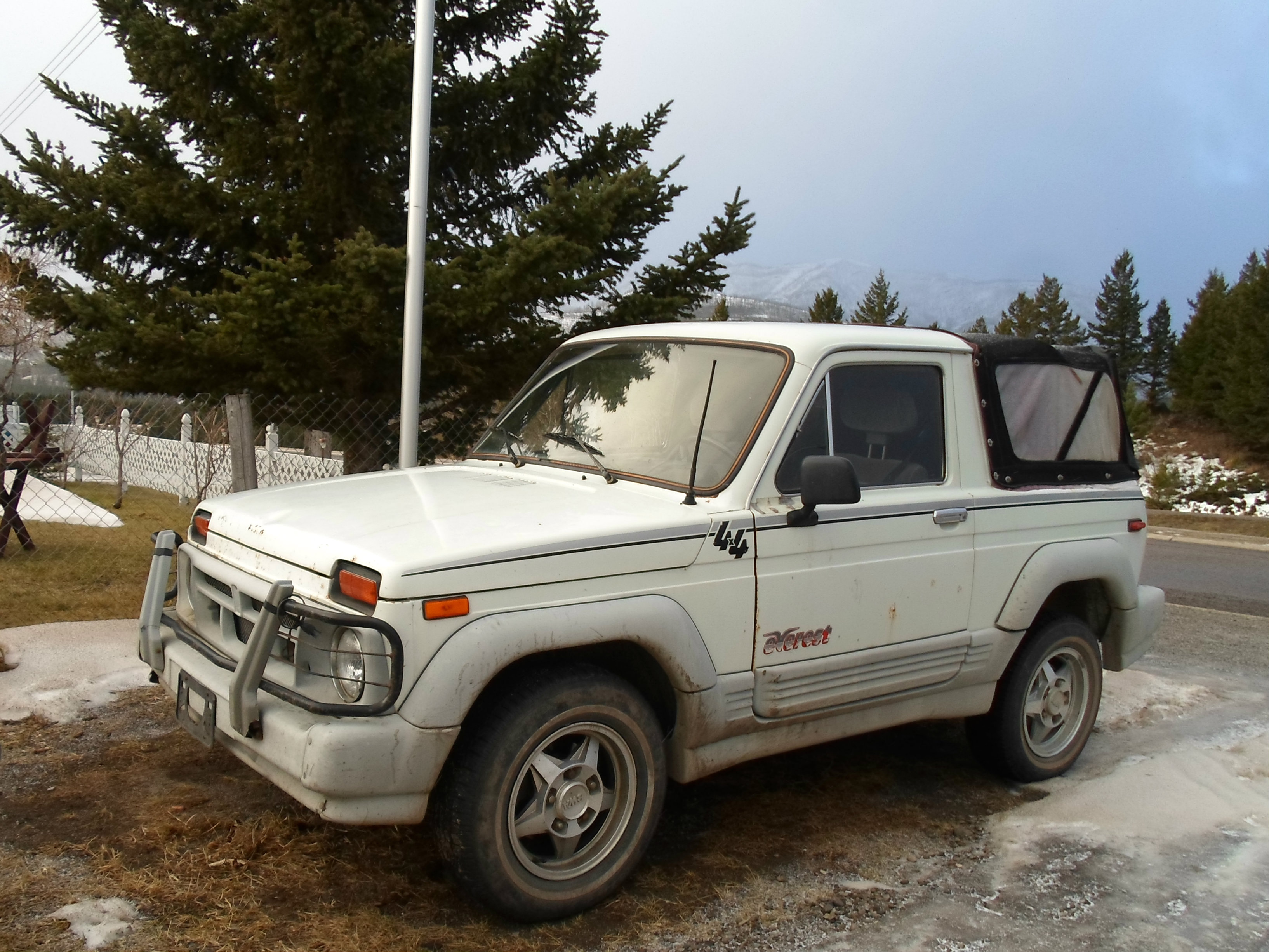 A very rare Canadian spec 1993 Lada Niva Cabrio with the SE body kit. It has Everest graphics perhaps added by the dealer.